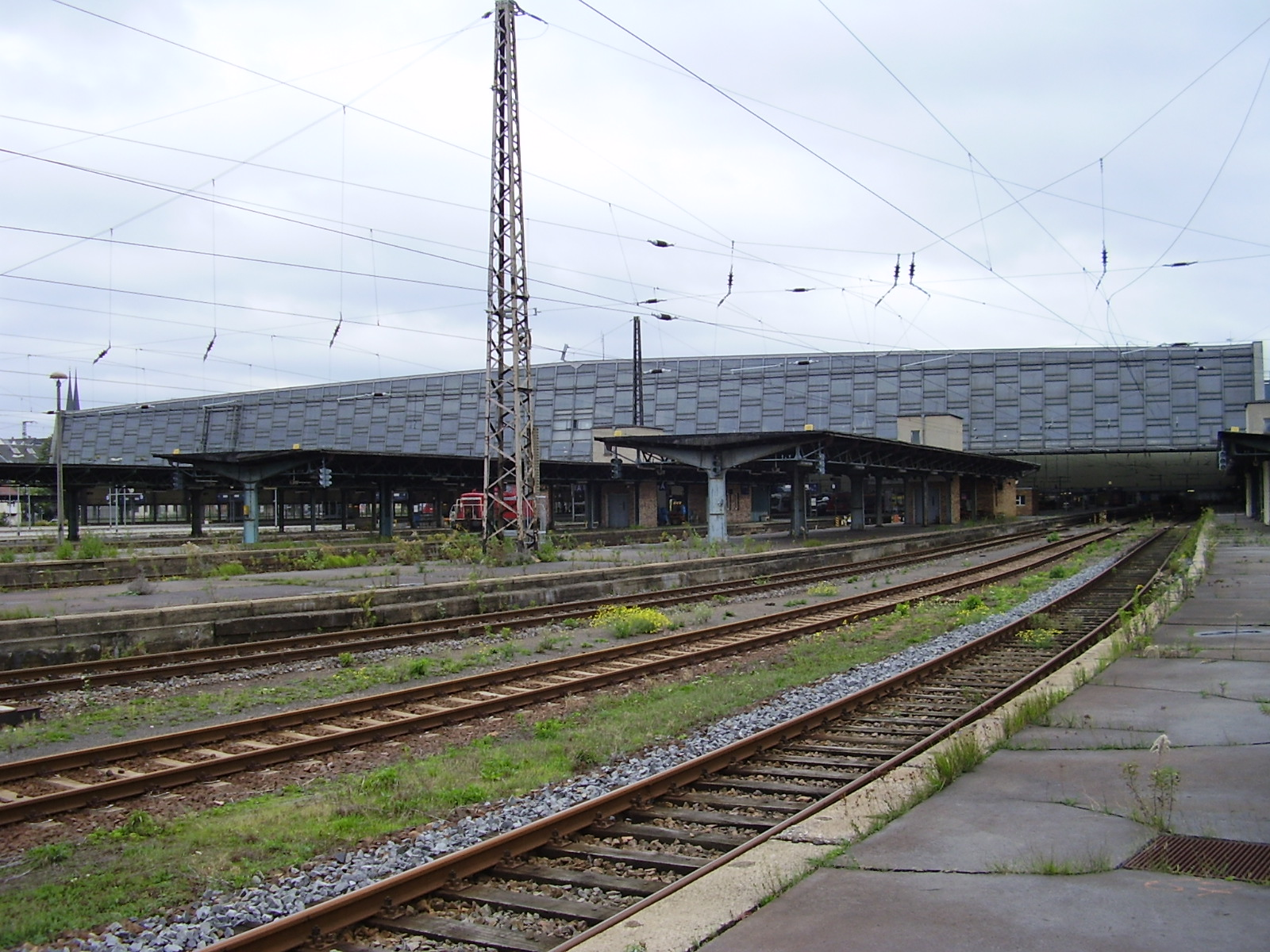 Station concourse of Chemnitz's Main Station